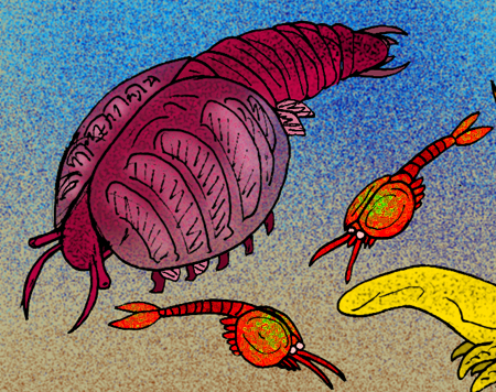 The Burgess shale arthropod, Canadaspis perfecta, with a pair of Waptia fieldensis.